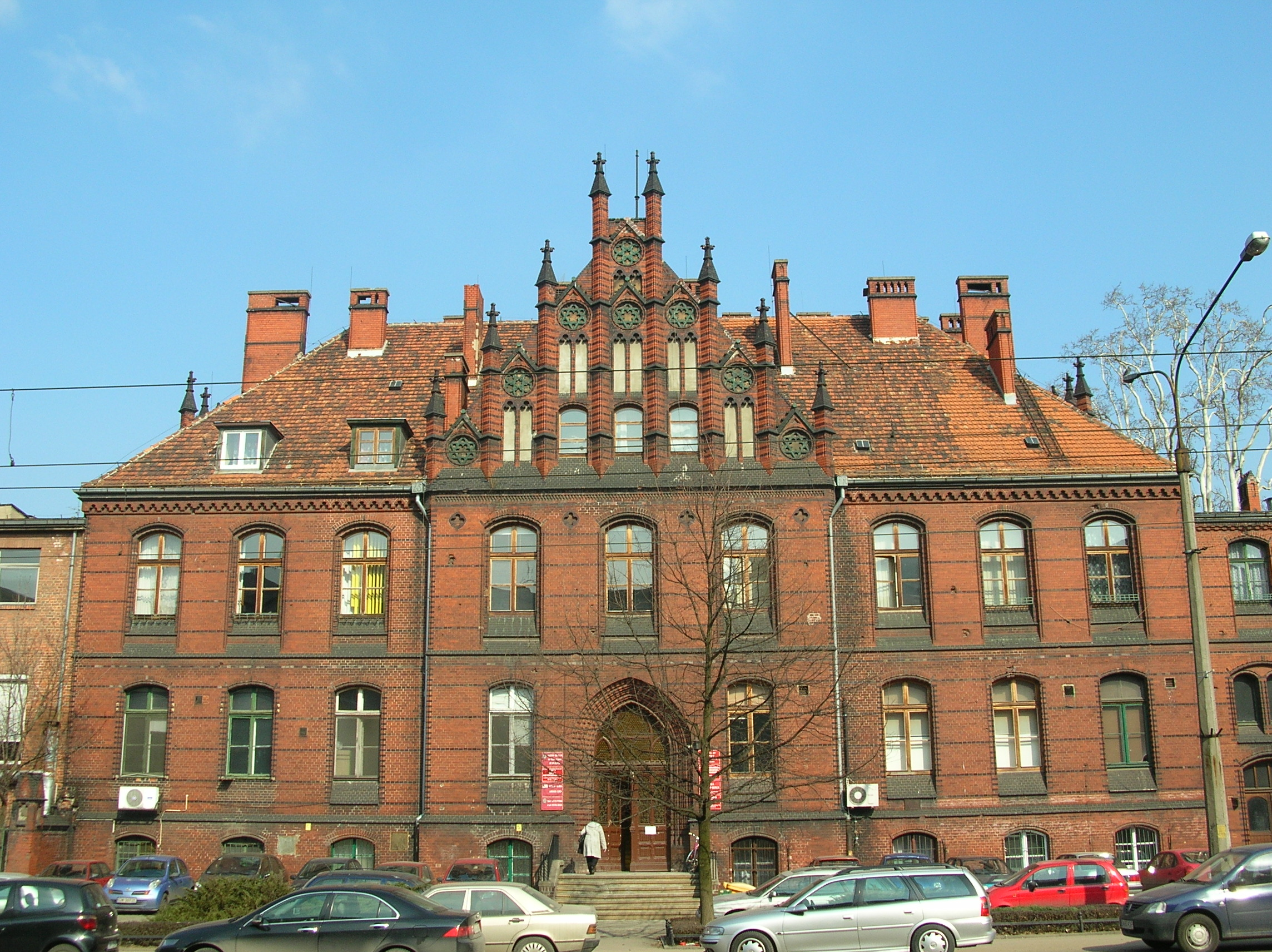 Wrocław Medical University, Maria Skłodowska Curie street.